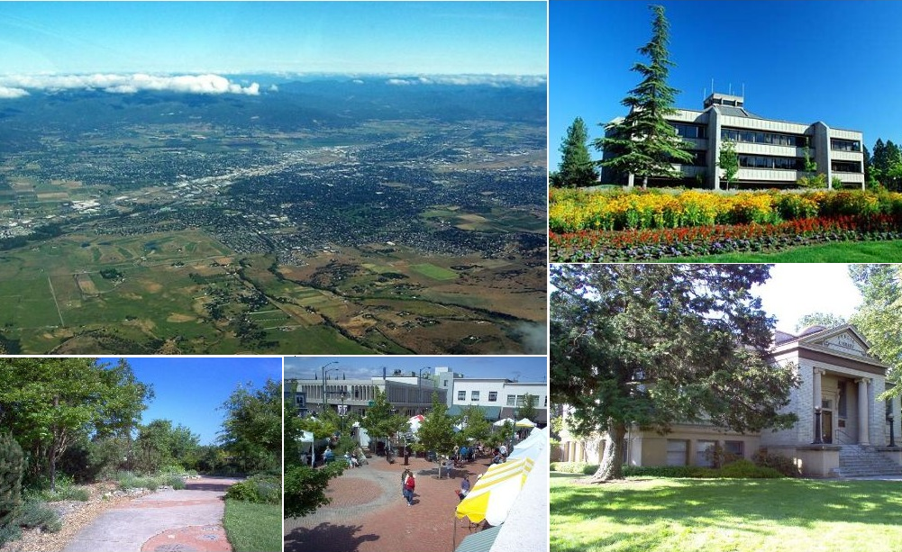 Montage of Medford, Oregon.